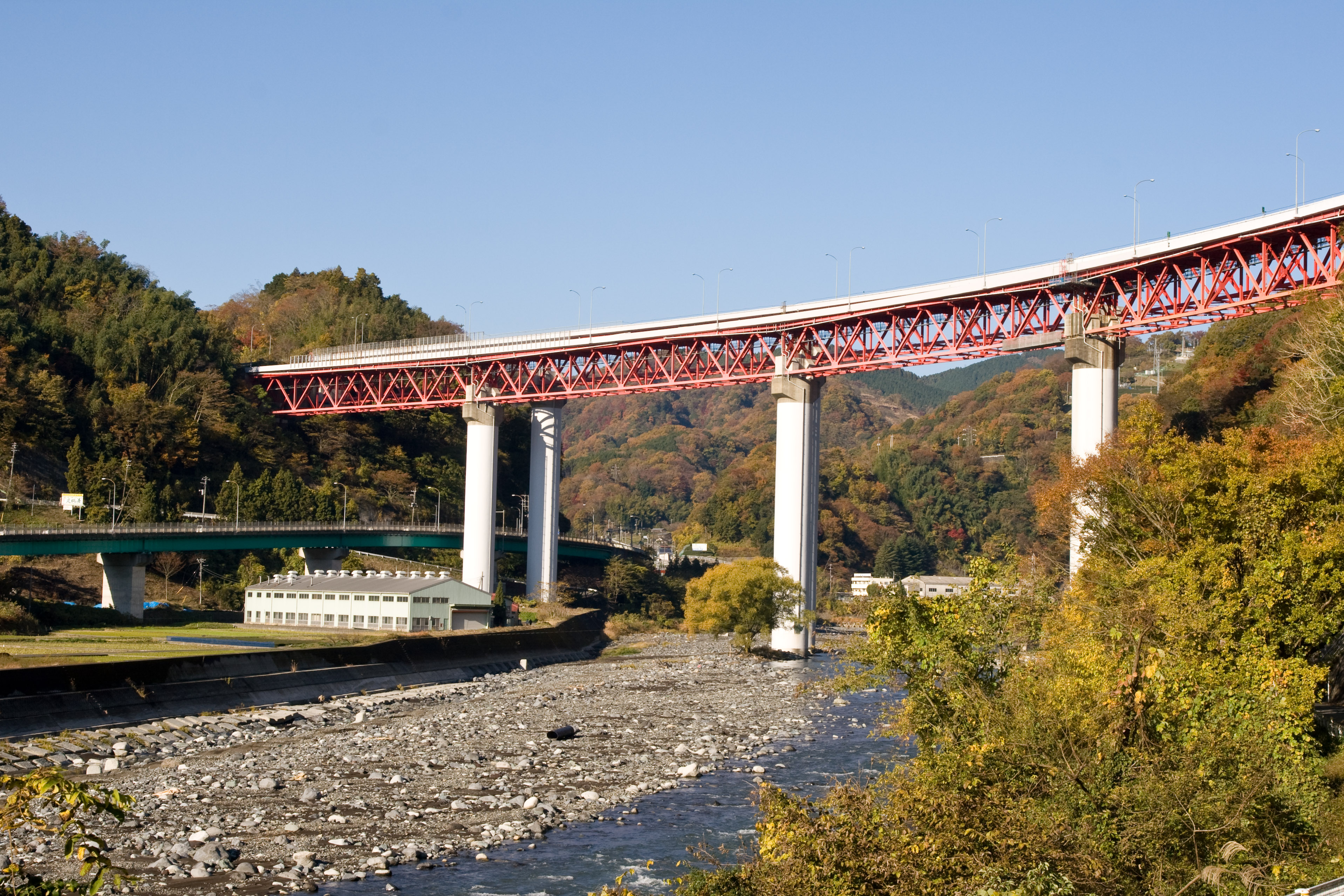 Sakawa riv. Bridge of Tomei Expwy in Yamakita Town, Kanagawa Pref., Japan.